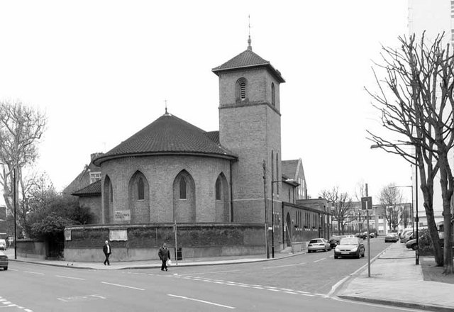 All Hallows, Devons Road, Bromley by Bow, London E3 Built 1955